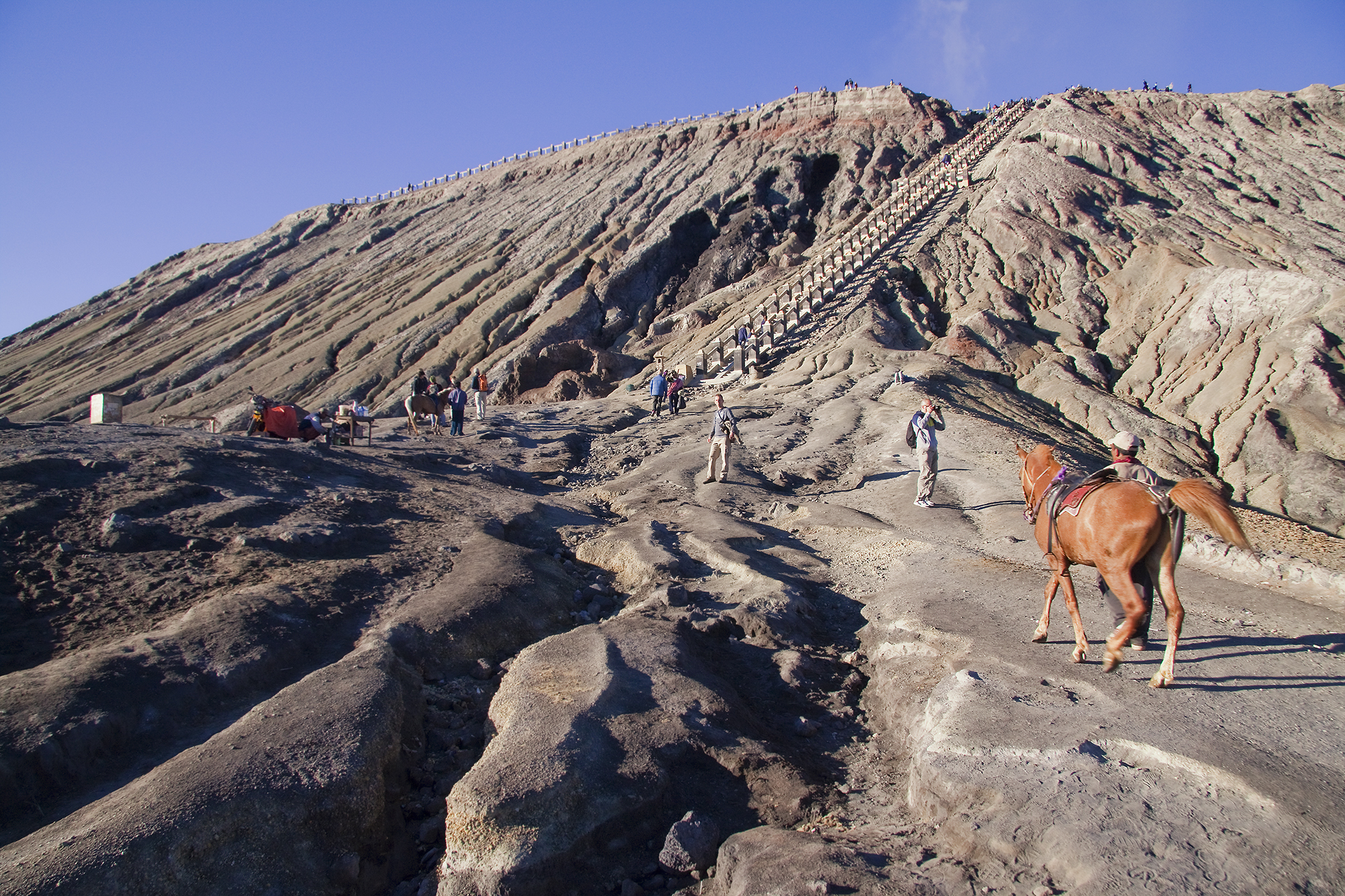 Stairs lead to Mt Bromo caldera, Bromo Tengger Semeru National Park, East Java, Indonesia